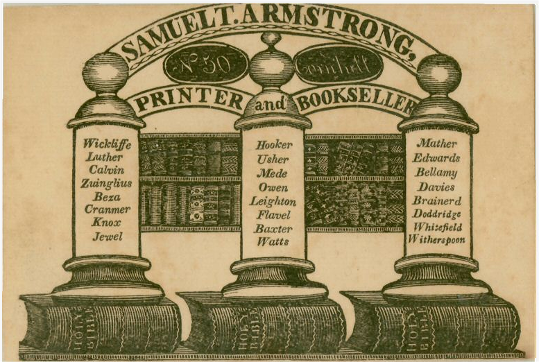 Samuel T. Armstrong, no. 50 Cornhill, printer and bookseller.